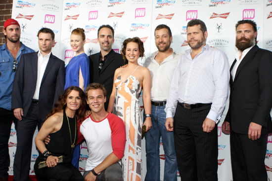 The cast of "Underbelly: Razor" at the series DVD launch party At East Village Surry Hills, Australia